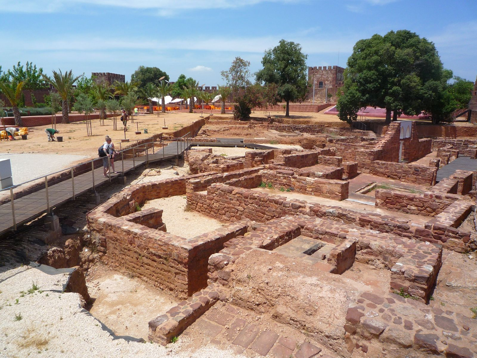 Excavations at Silves Castle, Algarve, Portugal